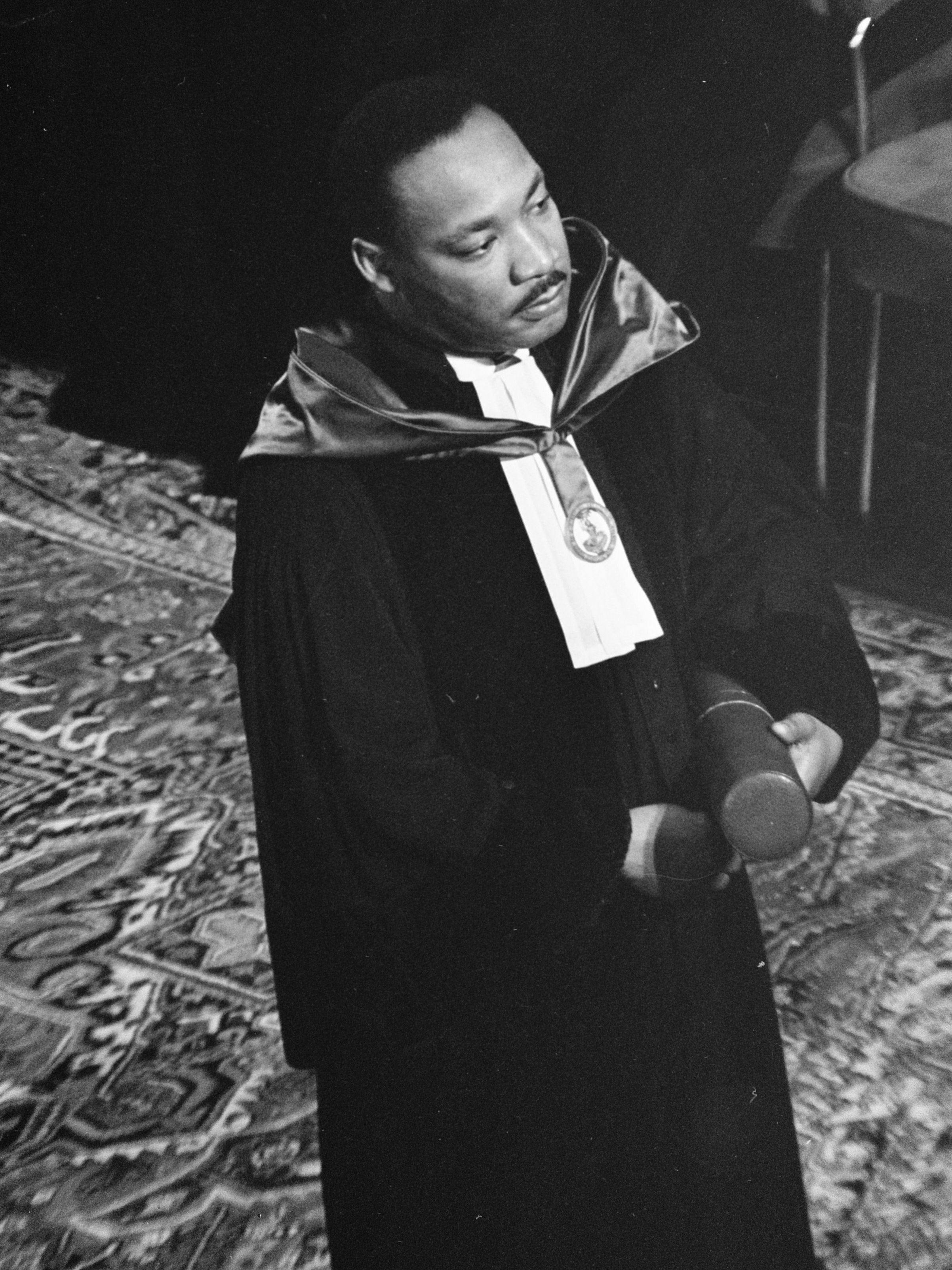 Martin Luther King receives an honorary doctorate of Vrije Universiteit Amsterdam. Concertgebouw Amsterdam, 20 Oct. 1965